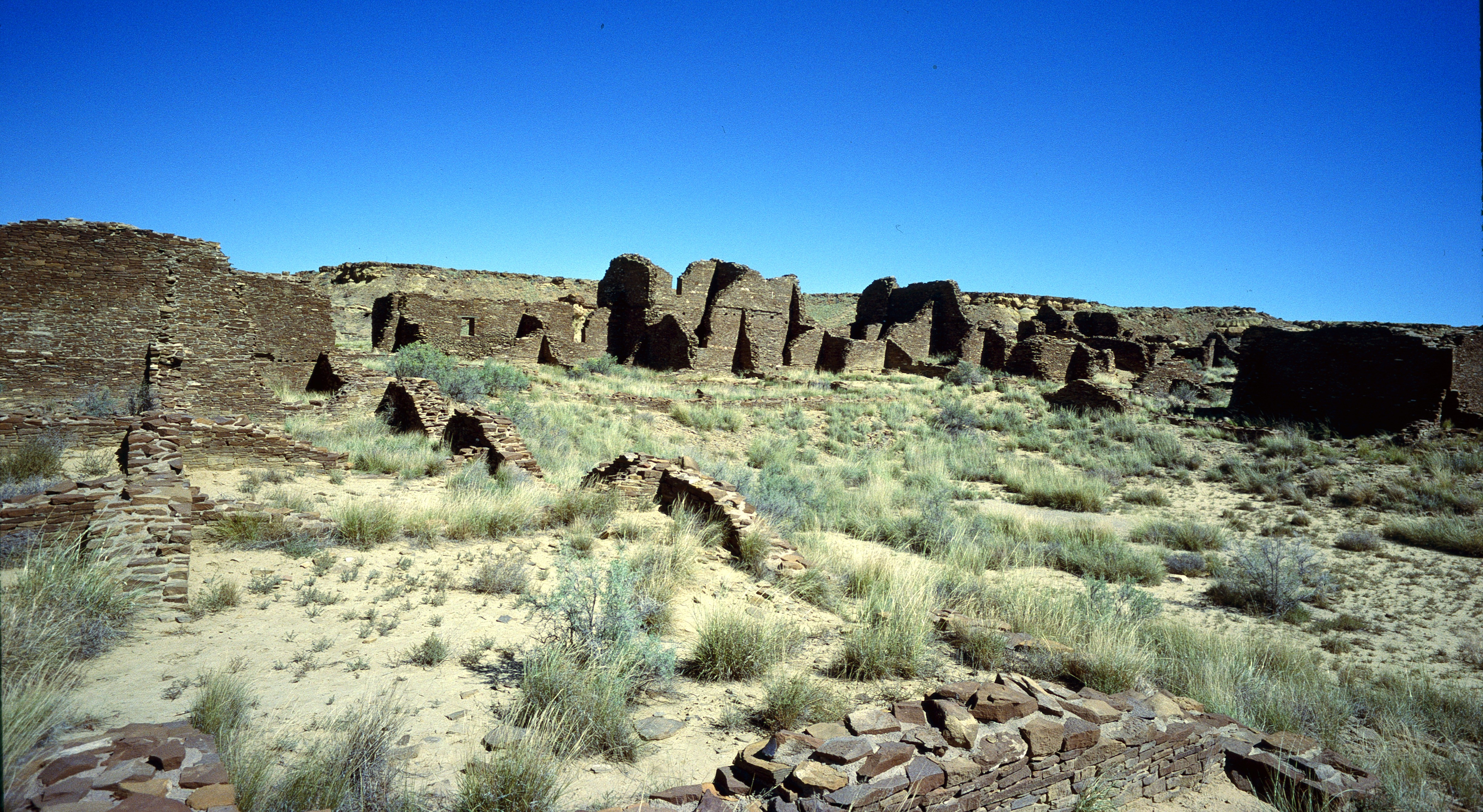 Kin Bineola, Chaco Canyon, New Mexico, U. S. A.